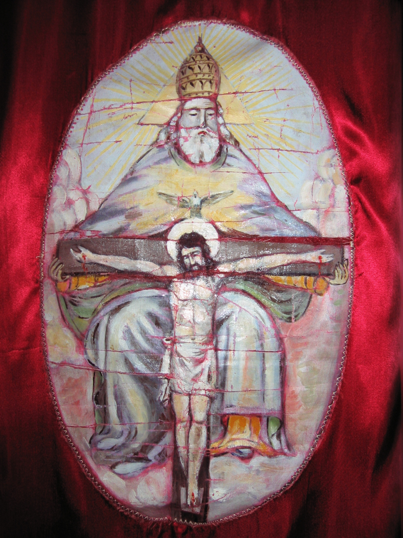 Holy Trinty Brotherhood Taranto